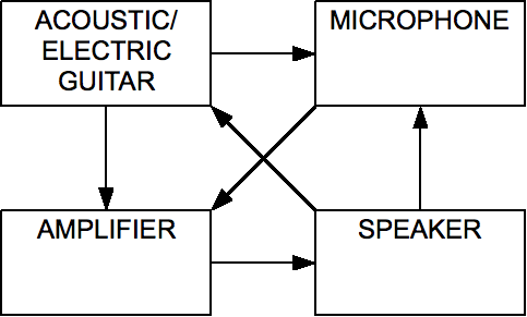 "Block diagram of the signal-flow for a common feedback loop." Hodgson, Jay (2010). Understanding Records, p.118. ISBN 978-1-4411-5607-5.